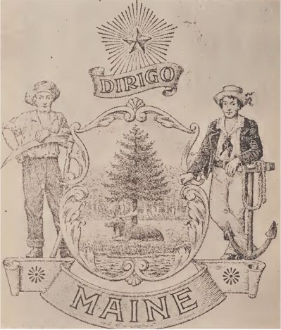 The Original sketch design for the Maine State Seal, adopted into Legislature, June 9, 1820 and attributed to Benjamin Vaughan.